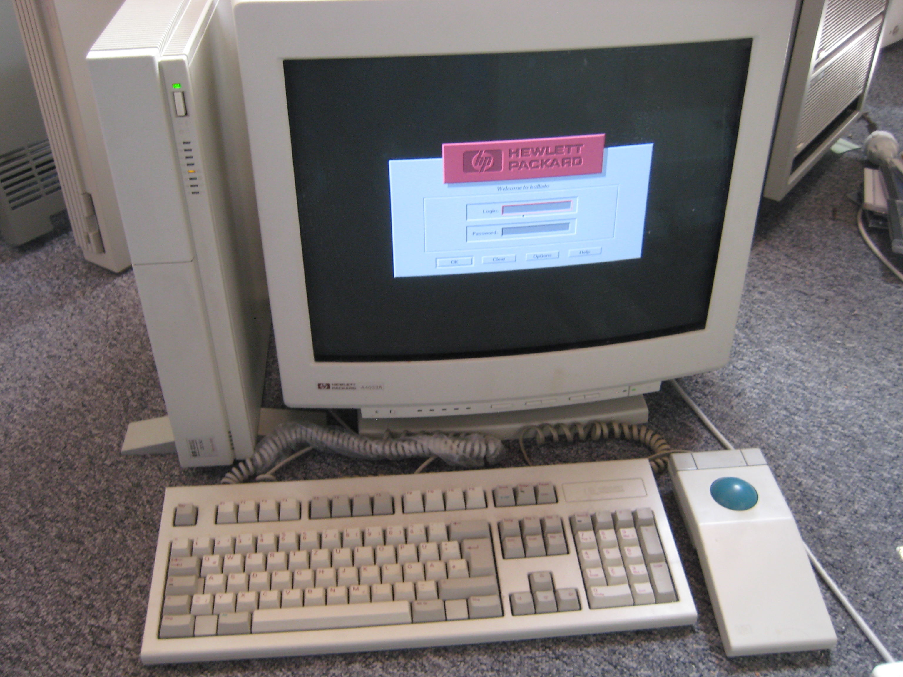 Hewlett Packard / HP-Apollo HP9000 Model 425e UNIX Workstation, Motorola 68040 CPU, 25.0 MHz, 48 MByte RAM, Operating System HP-UX 9.01, Visual User Environment (VUE), Human Interface Loop (HIL) keyboard and trackball, HP4033A CRT Display